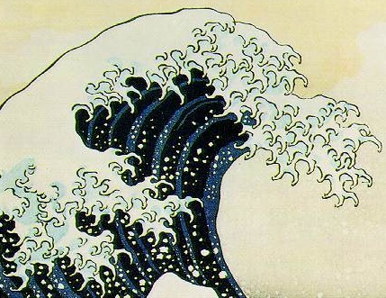 The Great Wave off Kanagawa, Hokusai Katsushika, details of the big wave